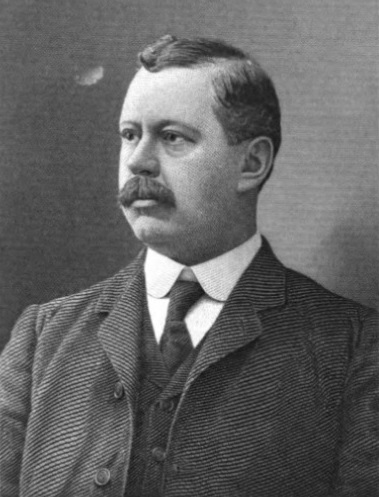 George R. Patterson (Pennsylvania Congressman)